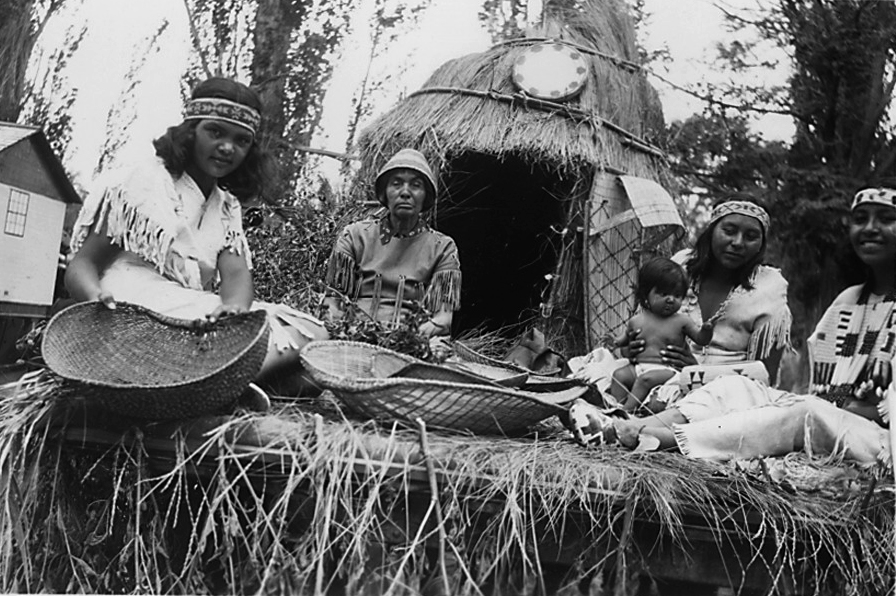 Detail of "Photographs, with captions, of Bishop, California, Labor Day Parade float, "Paiute Foods of Today," from Carson Agency Annual Extension Report for 1940 (Narrative Section)." Bishop Labor Day parade float. One of the Indian floats winning the grand prize of $25.00. The grass hut was constructed by two Indians.